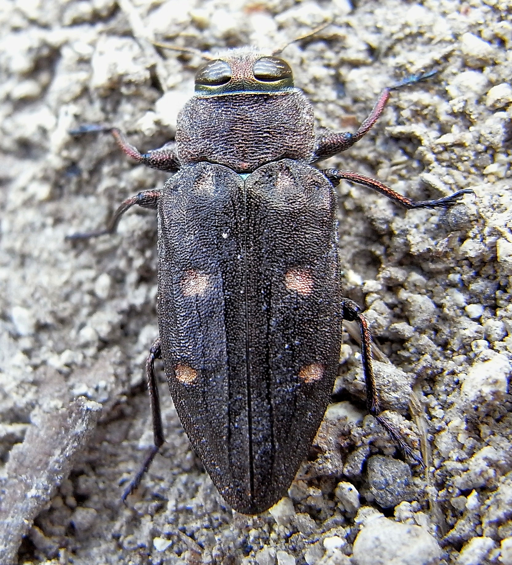 Chrysobothris affinis from Hungary, Matra-mountains, at 2010-06-28 Ricoh R8